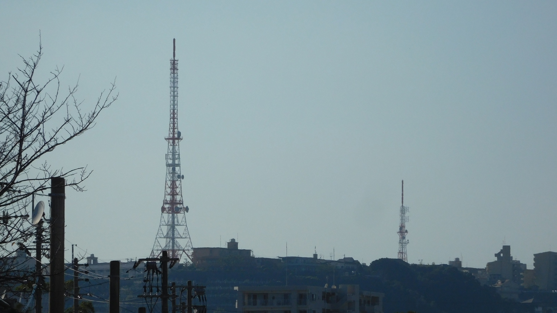 Murasakibaru (Kagoshima) Digital TV and FM Radio Transmitting Tower in 2017 (Kagoshima City, Japan)